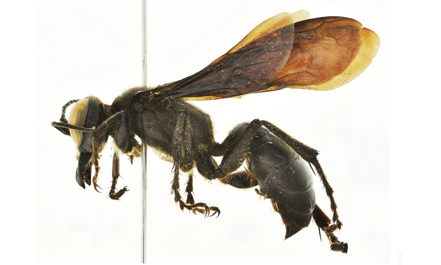 A male wasp Megalara garuda